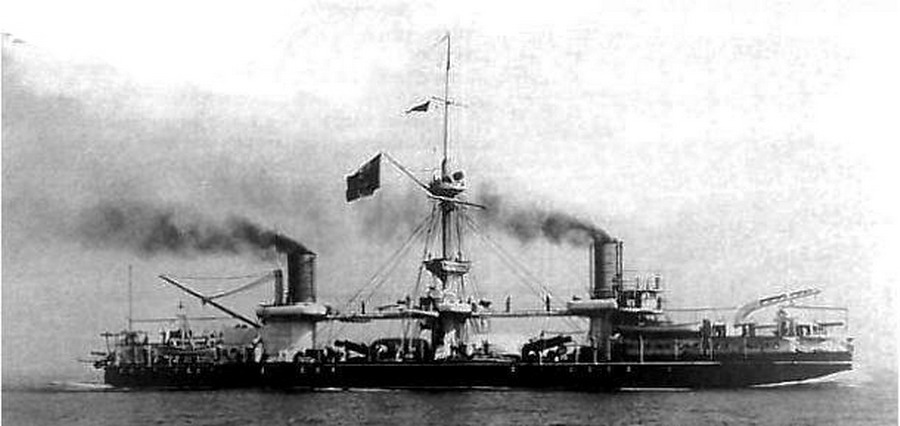 The Italian battleship Andrea Doria